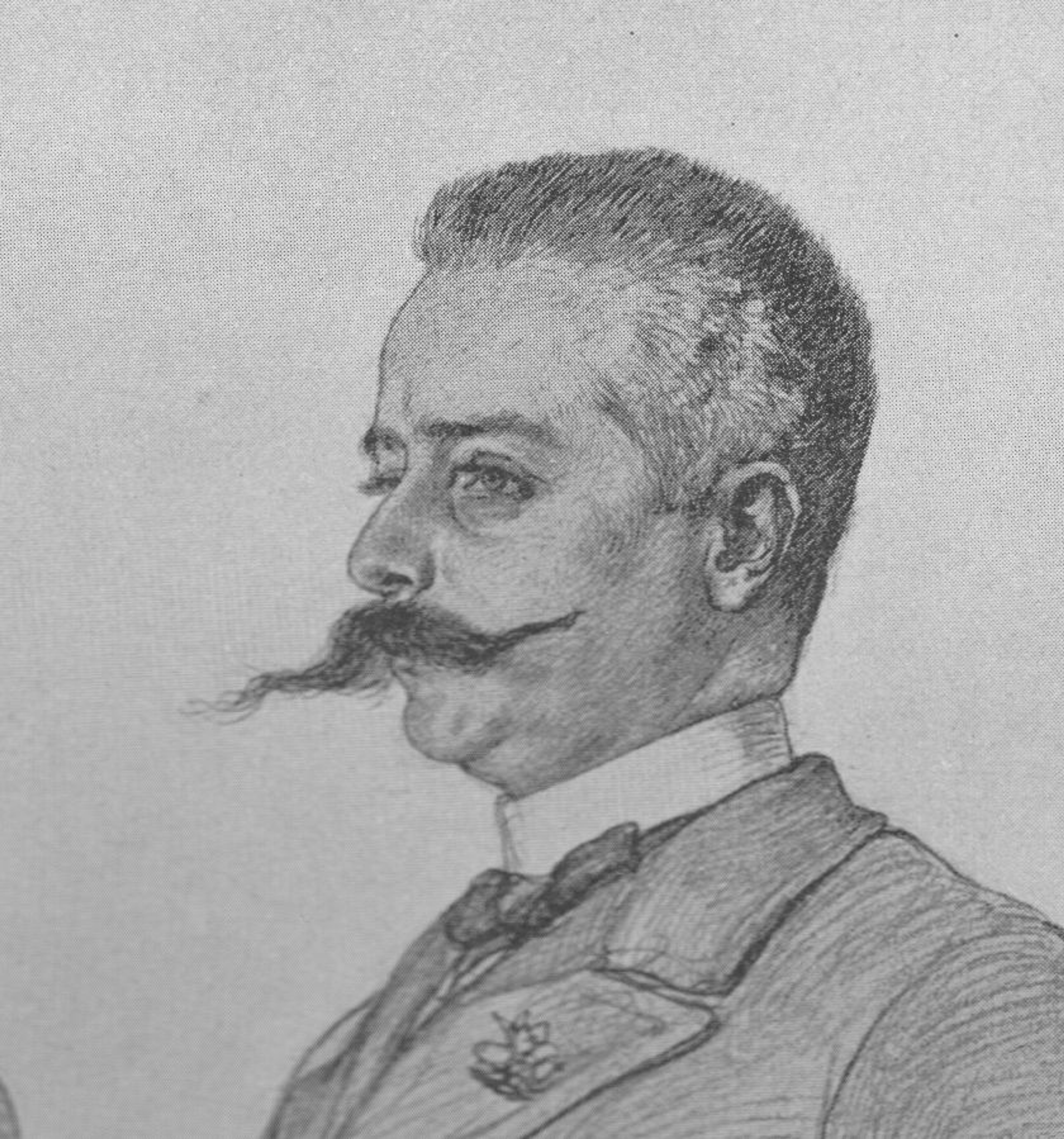 Walter von Saint Paul-Illaire (* 12. Januar 1860 in Berlin; † 12. Dezember 1940 in Berlin) was a German colonial officer in eastern africa.